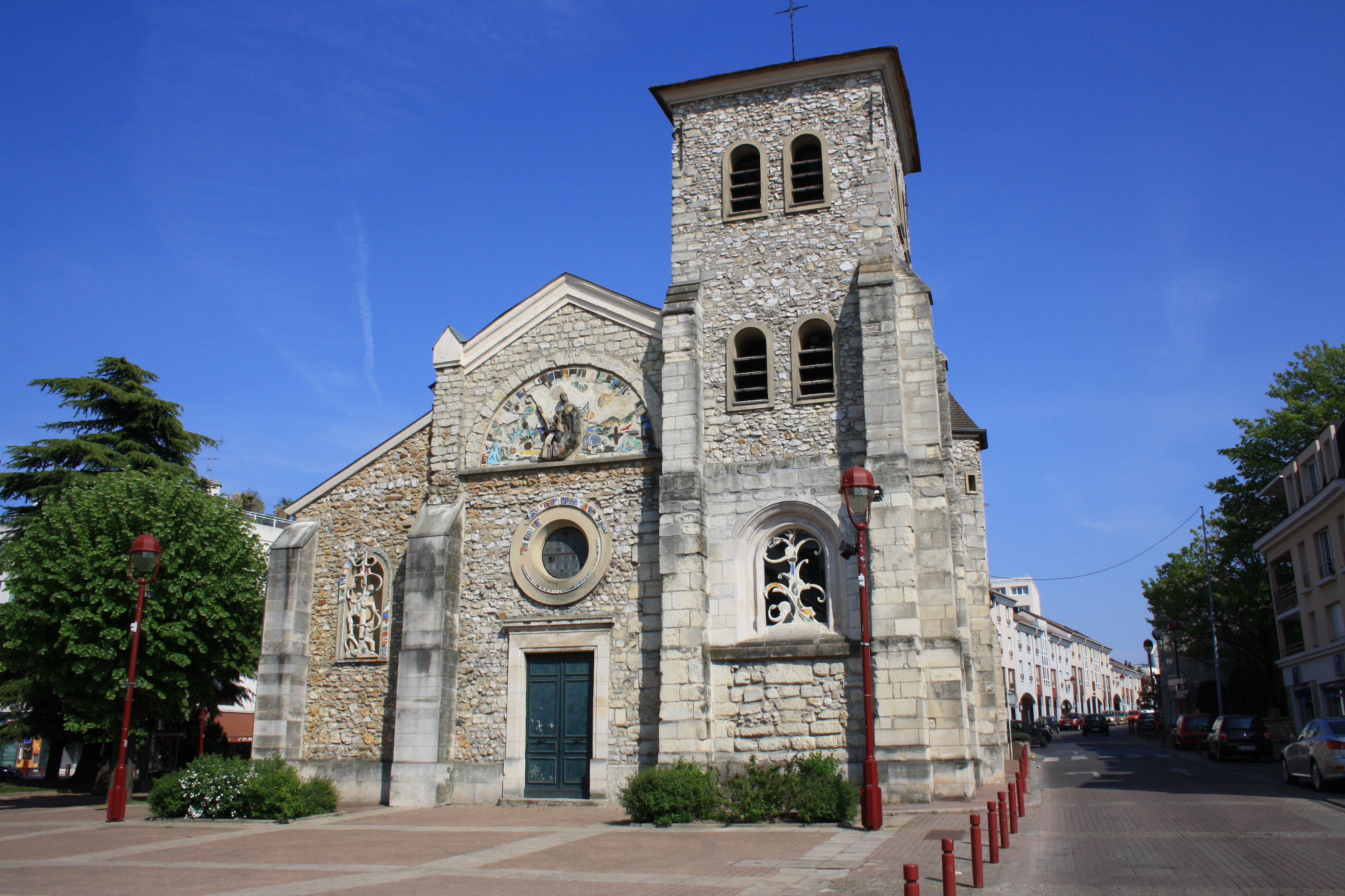 Church Saint Eloi Fresnes near Paris, France